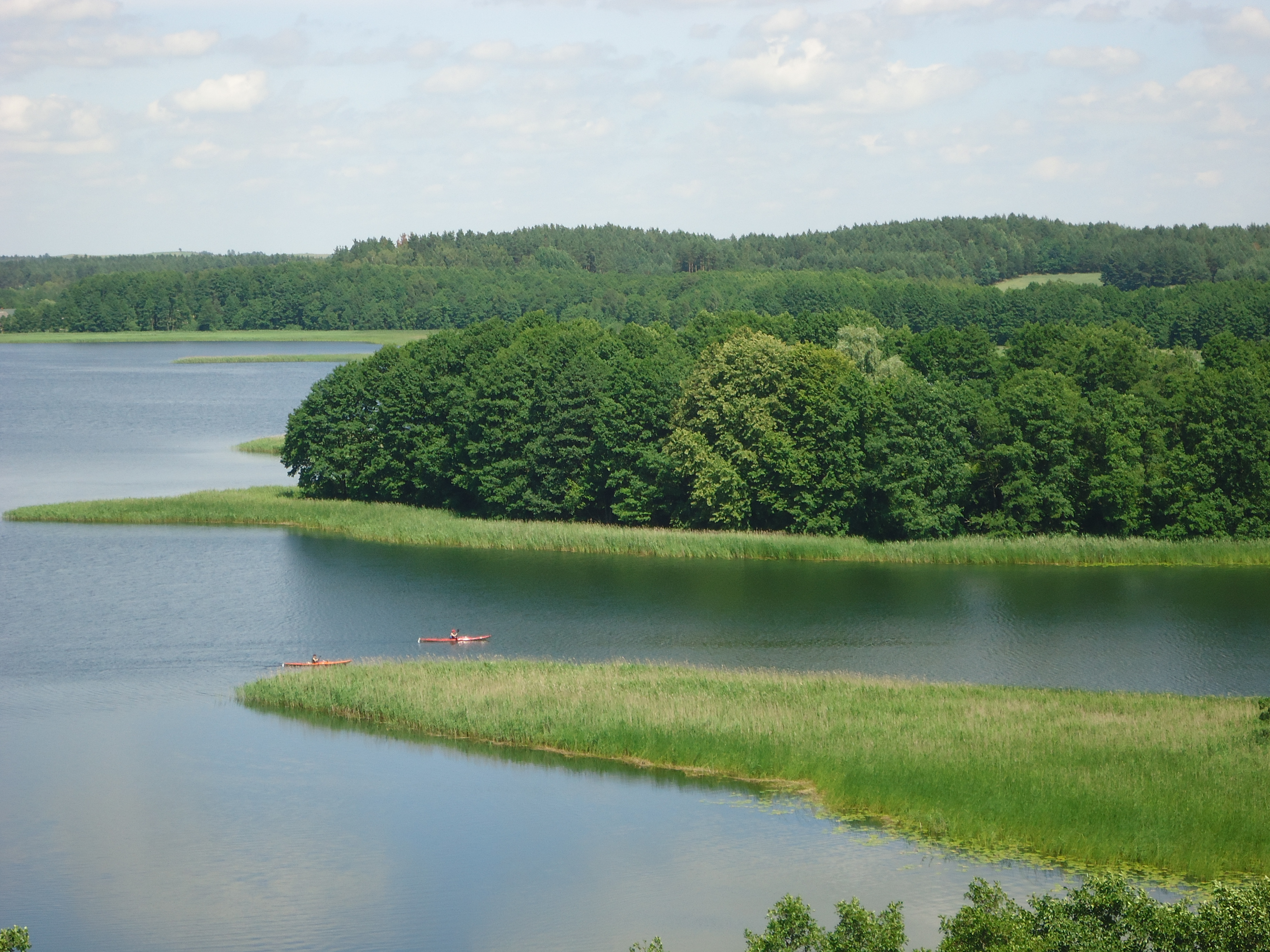 This is a photography of protected area with CRFOP ID PL.ZIPOP.1393.PN.2